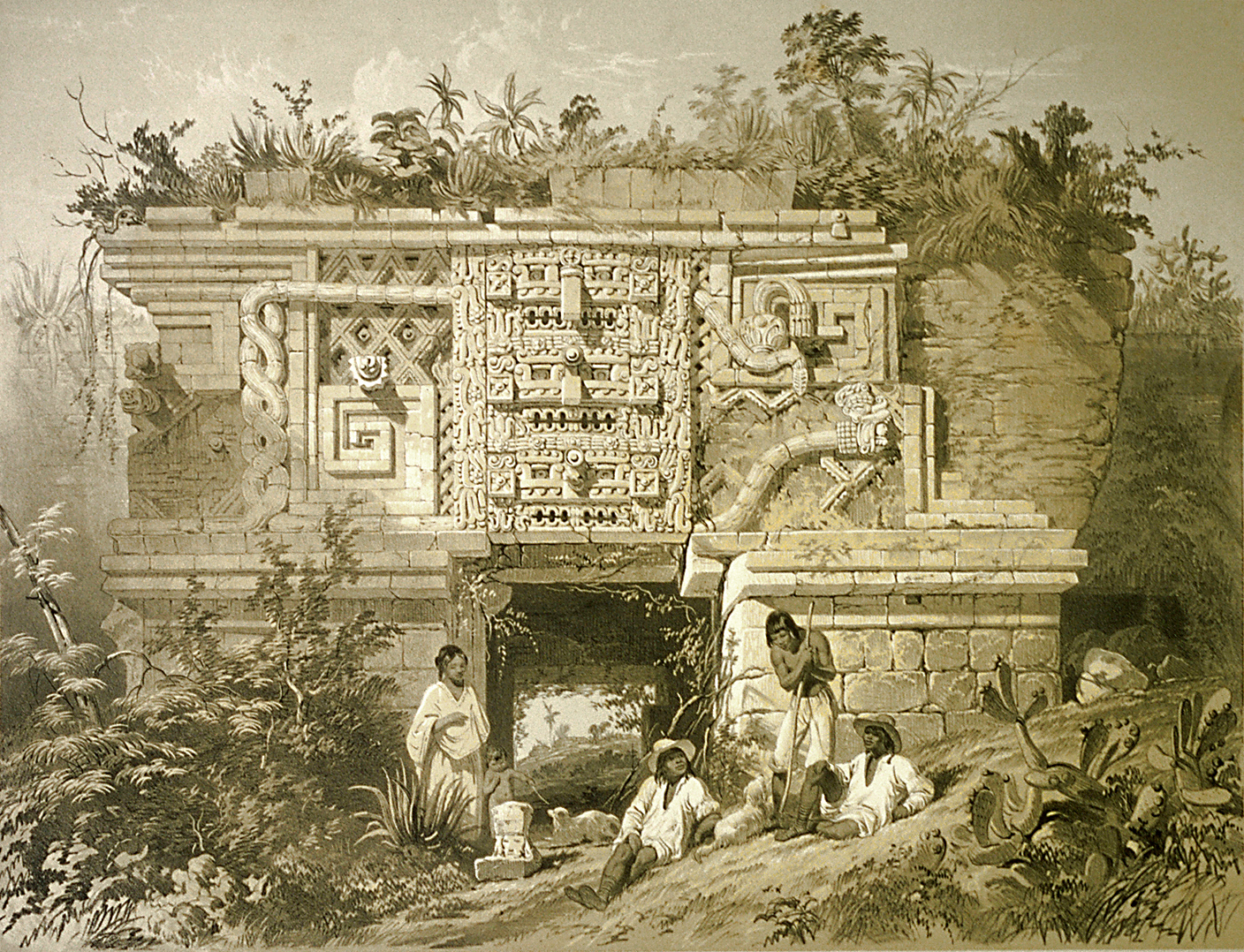 Chromolithograph drawn by Frederick Catherwood. Portion of a Building Called Las Monjas at Uxmal. Represents a part of the Nunnery Quadrangle fascade of Uxmal, Yucatán, Mexico.